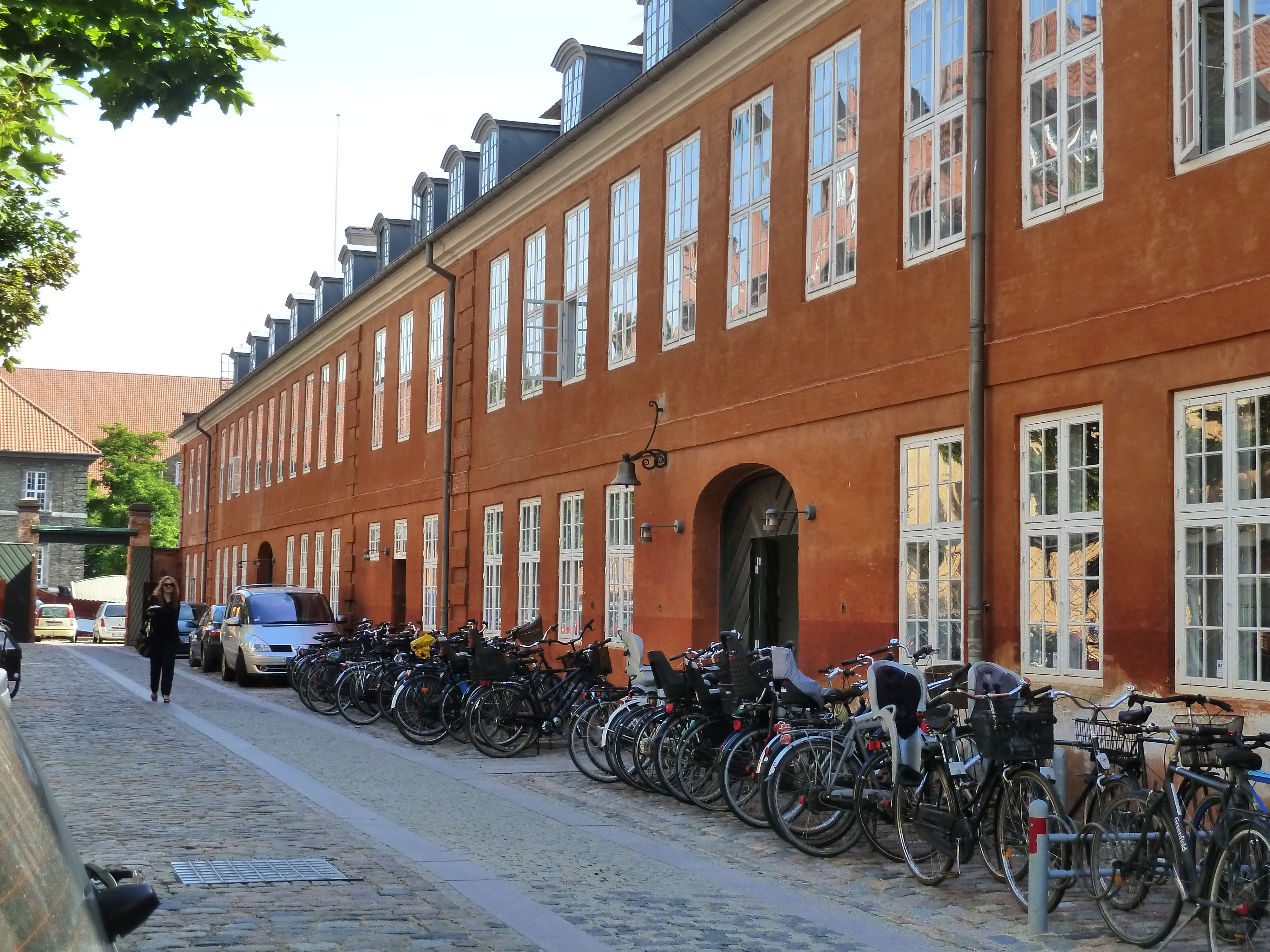 The Royal Horse Guards Barracks (Hestegardekasernen), view towards Frederiksholms Kanal, in Copenhagen, Denmark